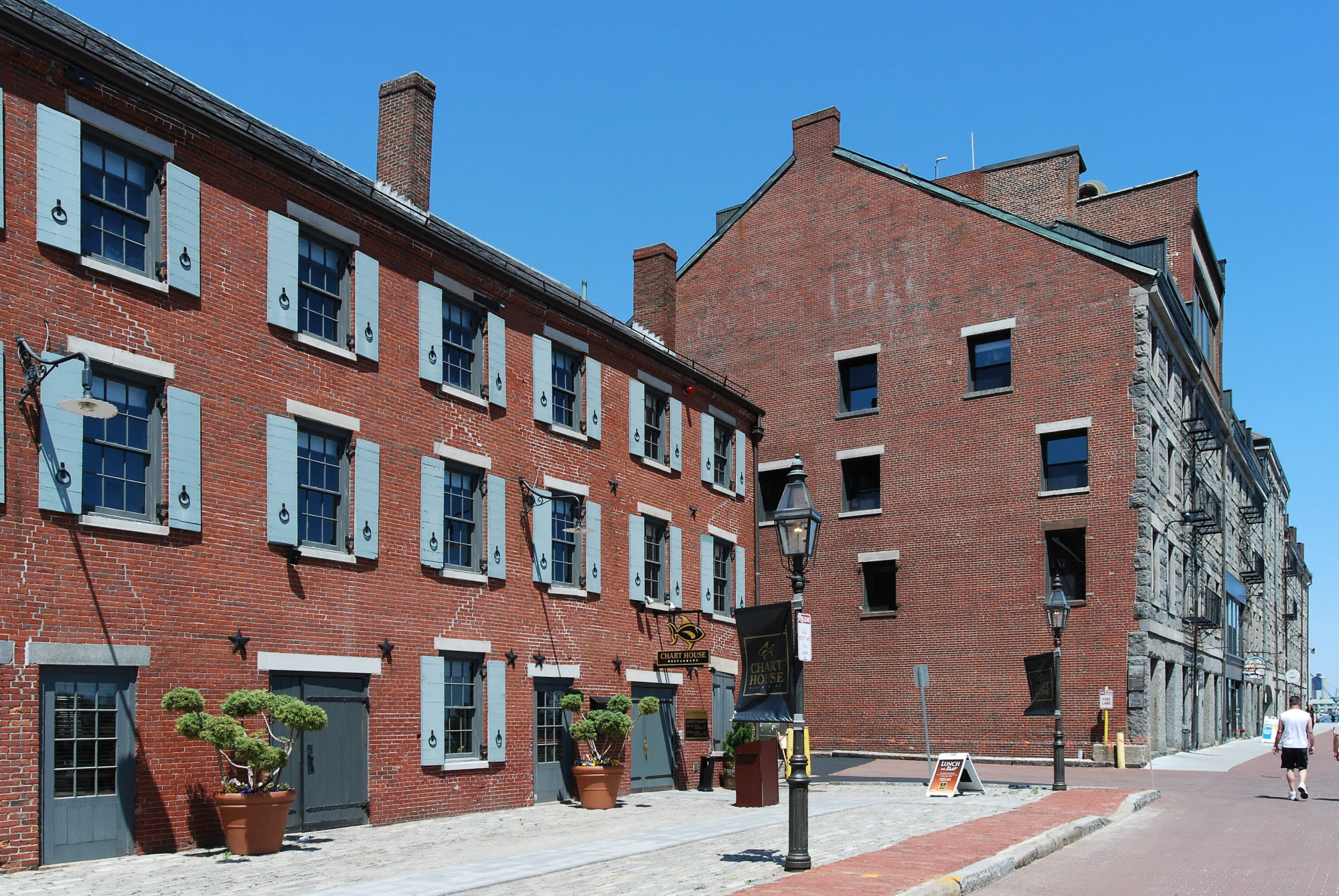 Long Wharf and Customhouse Block, Boston, Massachusetts